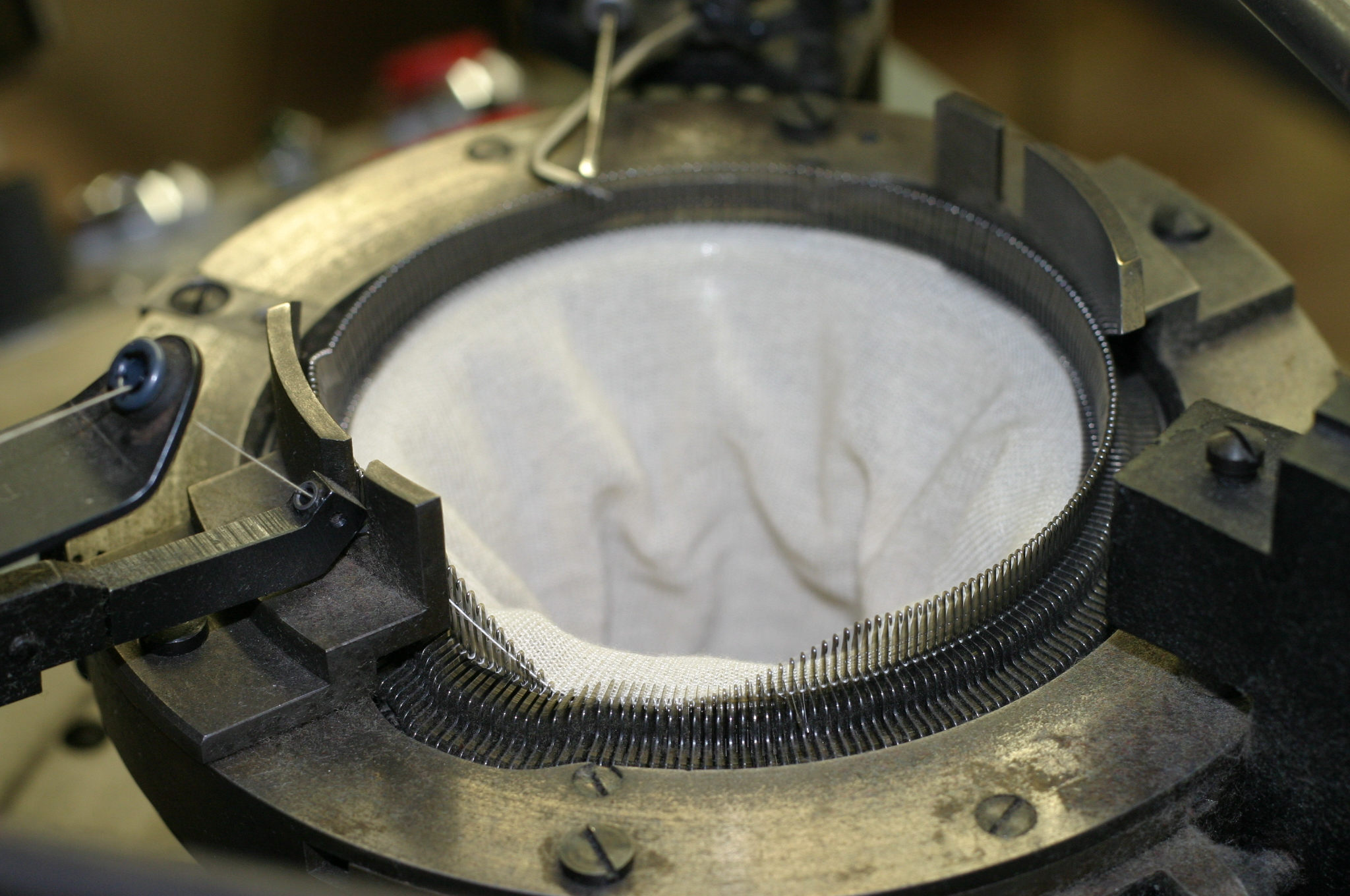 Industrial circular knitting machine.